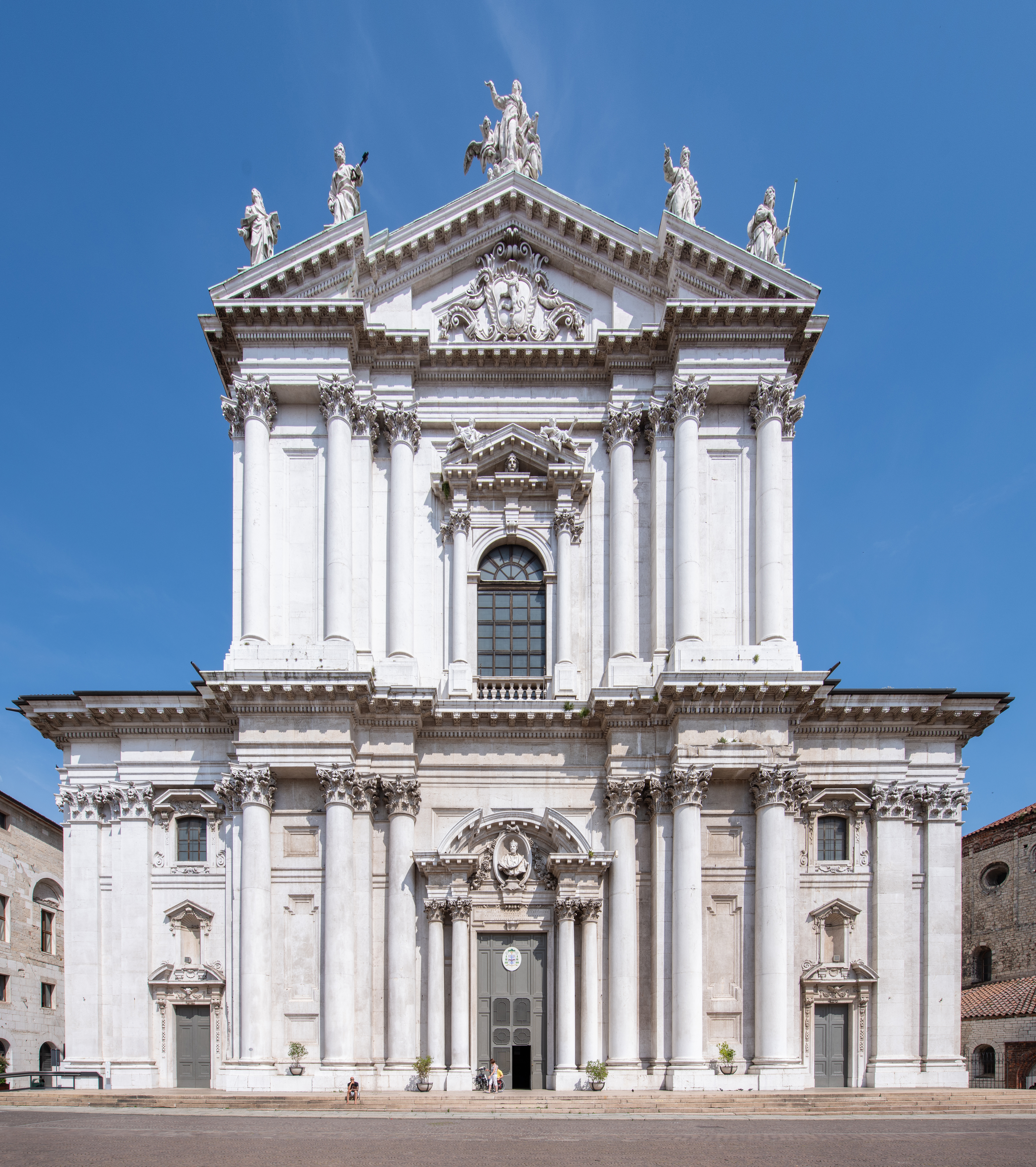 The facade of the Duomo nuovo cathedral in Brescia